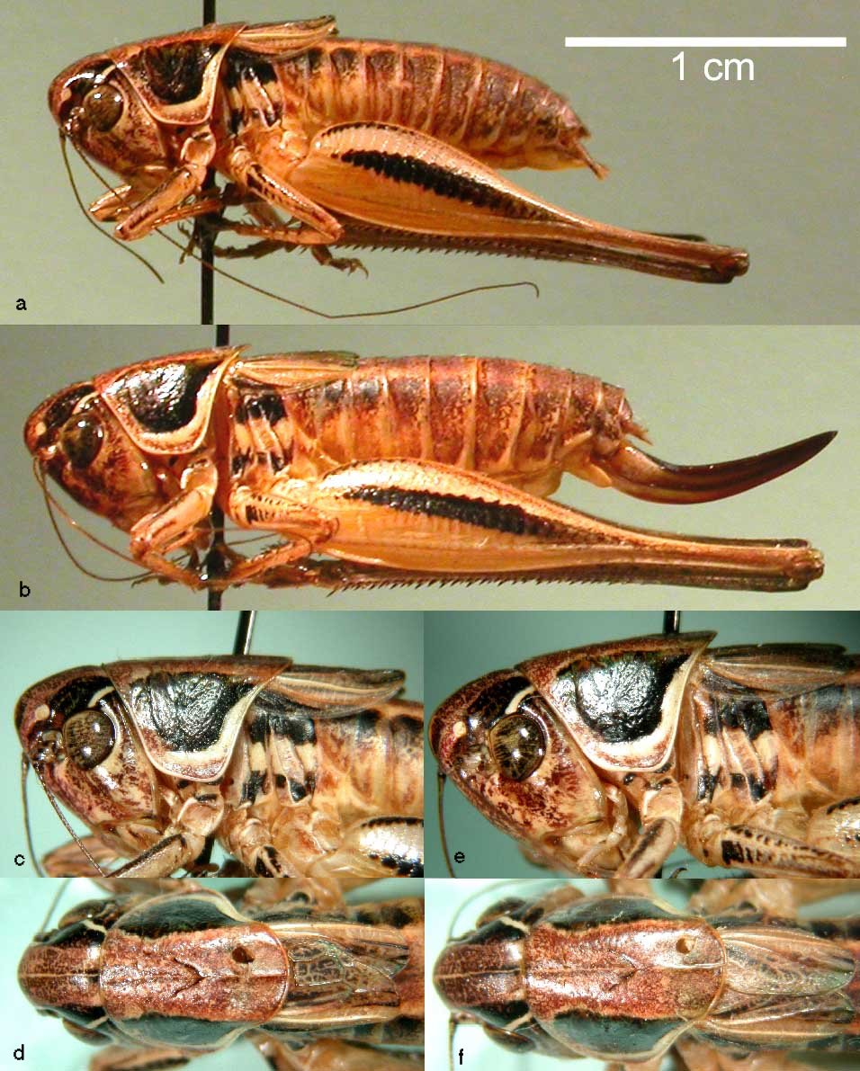 Incertana drepanensis (Tettigoniidae) a) male in lateral view; b) female in lateral view; c) head, pronotum and tegmina of male in lateral view; d) head, pronotum and tegmina of male from above; e) head, pronotum and tegmina of female in lateral view; f) head, pronotum and tegmina of female from above